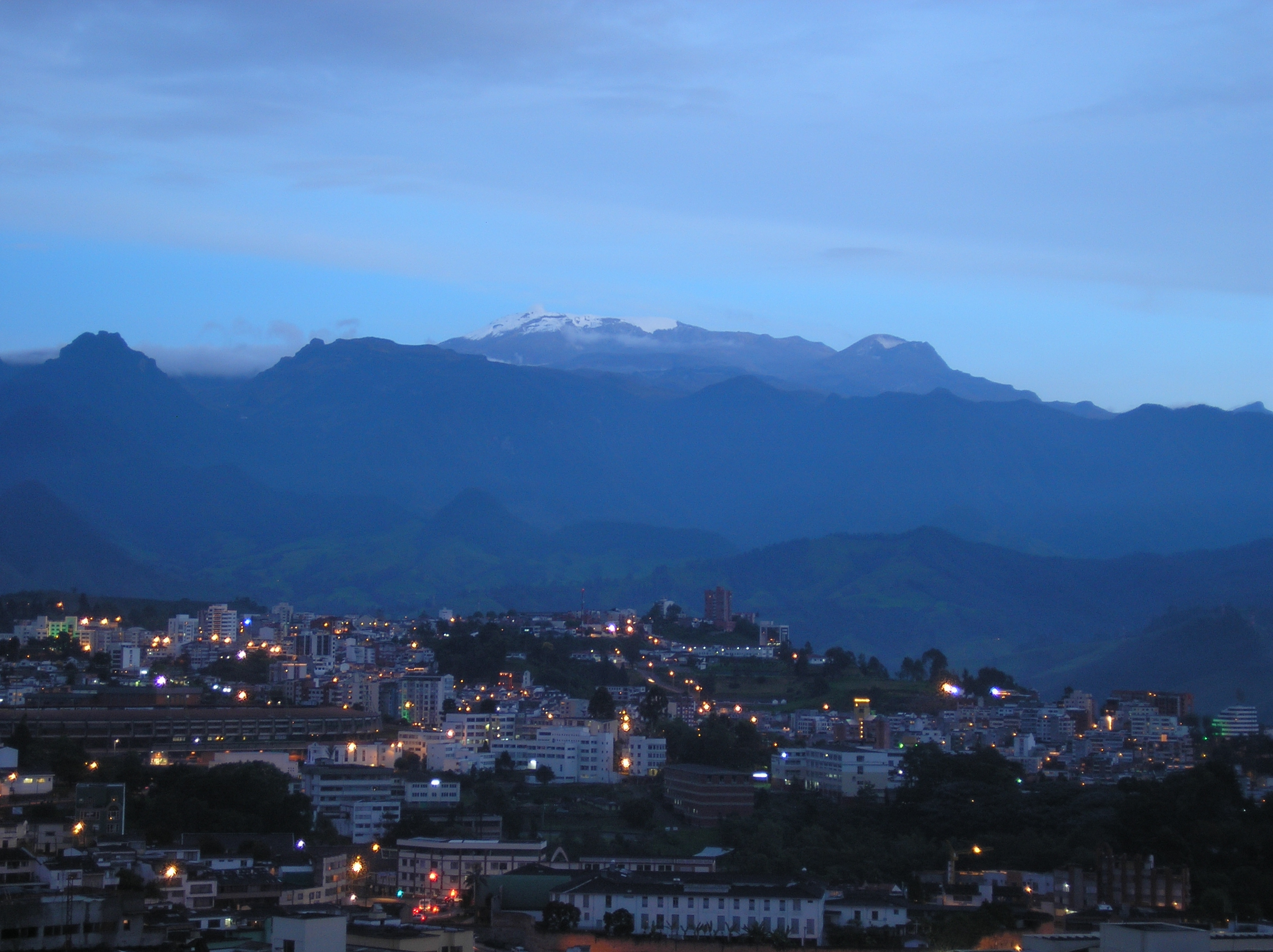 "Nevado del Ruiz" (El Ruiz snow peak). Part of Los Nevados National Park. I took this picture on December 27, 2006 at around 6:30 pm local time, from Manizales. 20 years ago, snow used to cover the mountain peak and the "La Olleta" volcano. The top left of the mountain is showing signs of activity coming from the Arenas crater, which points to the other side (eastward) of Los Andes mountain range. This crater exploded in 1985, causing a lahar that buried the 25.000-people city of Armero in the middle of the night. Still, the Nevado del Ruiz remains one of the most beautiful natural attractions, not only in Manizales, but Colombia.